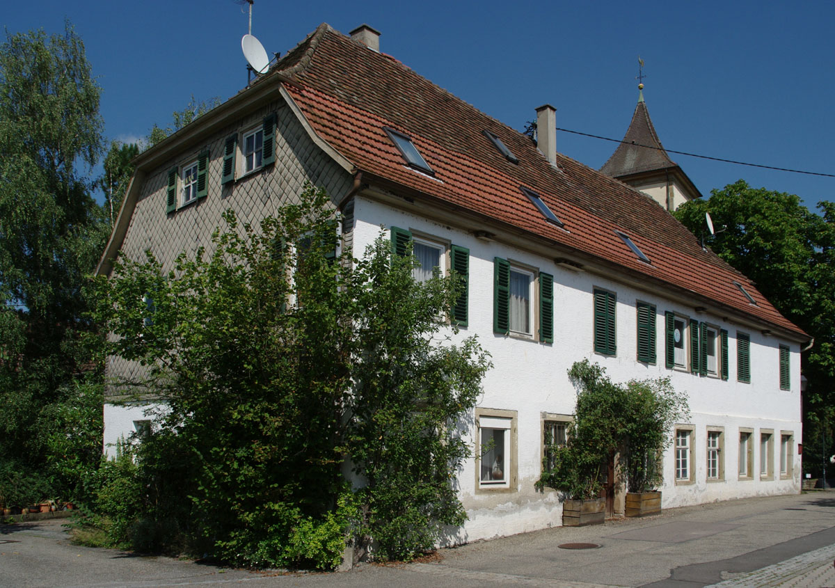 The old vicarage (built in 1746 / 1747) where August Ludwig Reyscher was born. In the background the old evangelic church of Unterriexingen, Germany.